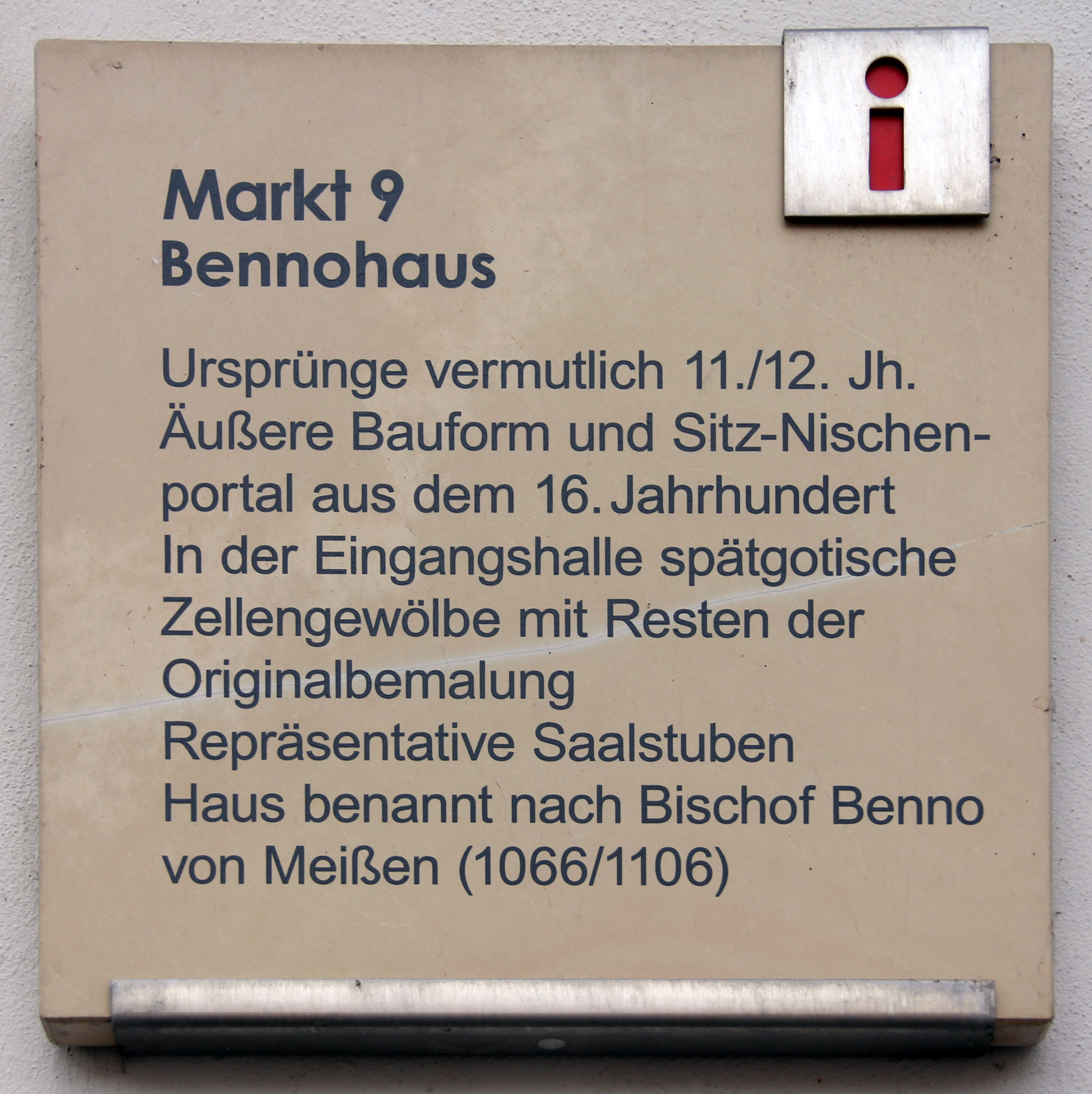 Memorial plaque, Benno von Meißen, Markt 9, Meißen, Germany